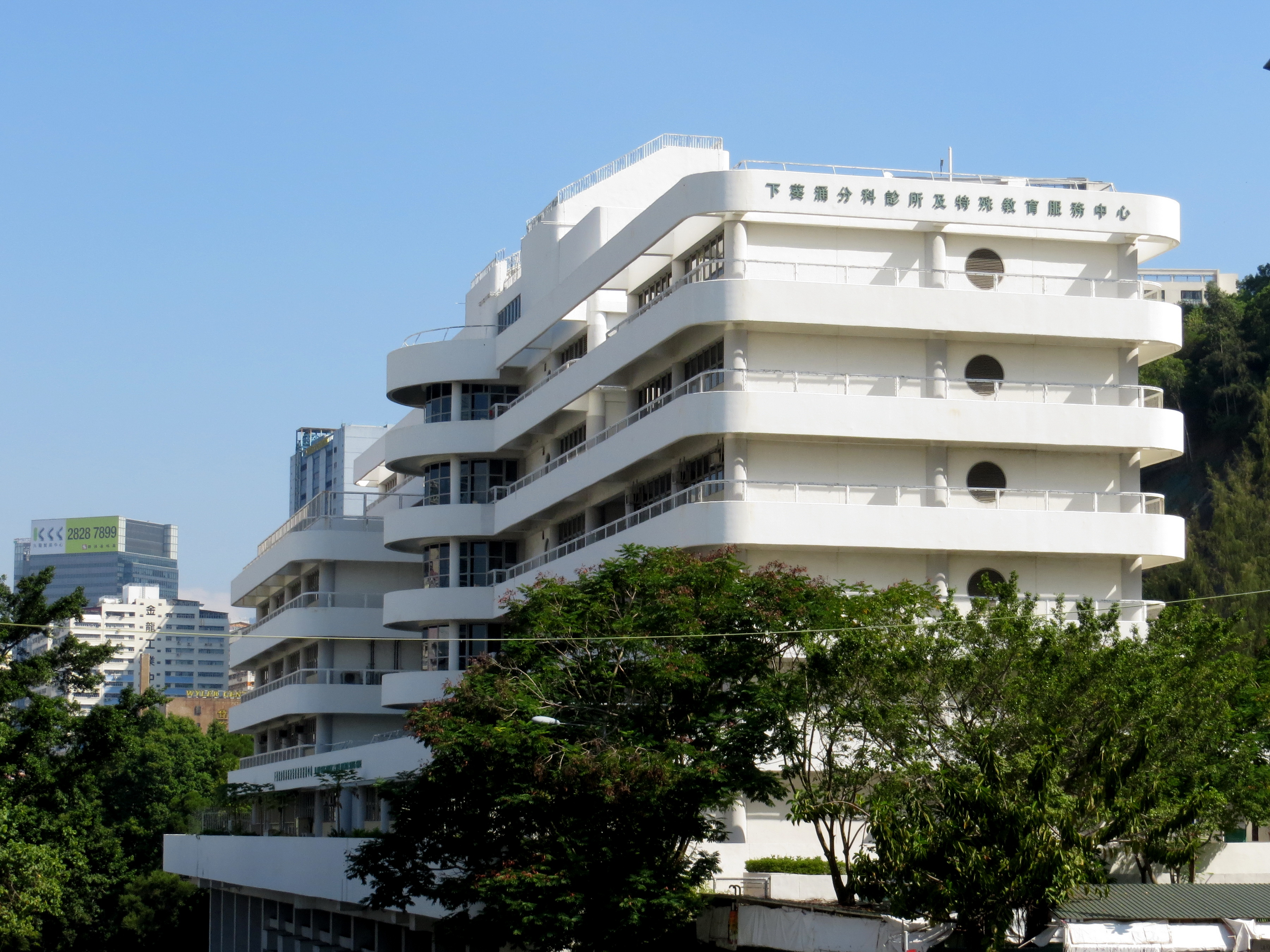 Ha Kwai Chung Polyclinic & Special Education Services Centre, 77 Lai Cho Road, Kwai Chung, New Territories